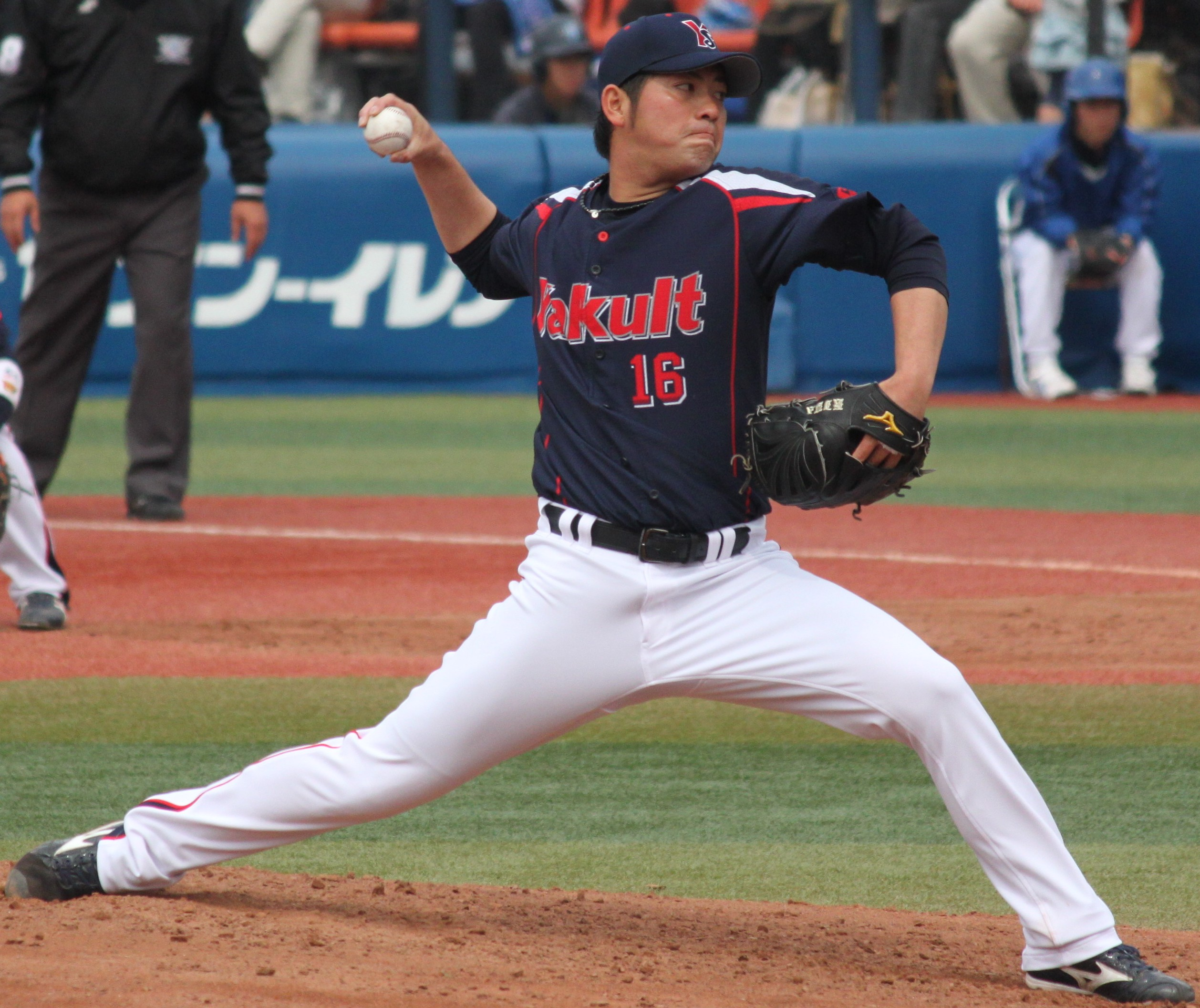 Ryohei Kiya, pitcher of the Tokyo Yakult Swallows, at Yokohama Stadium.